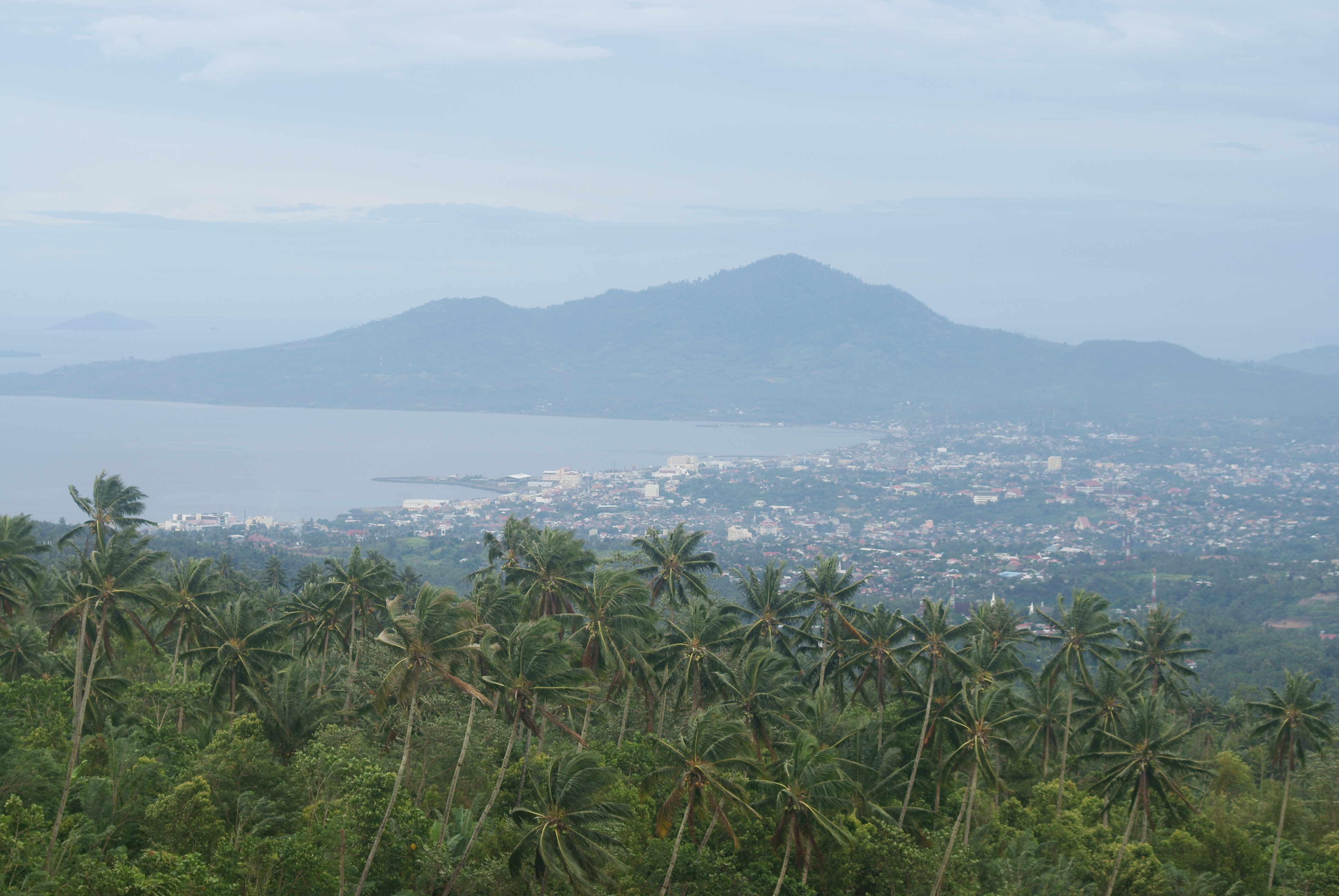 Manado Bay and Manado City, North Sulawesi